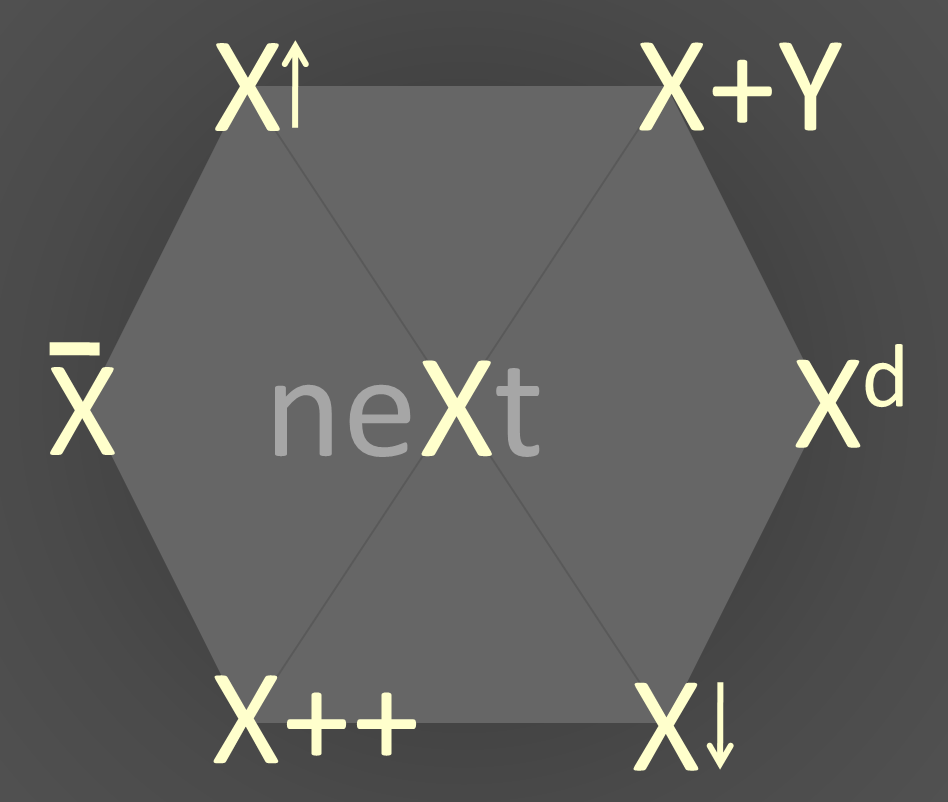 Idea Hexagon framework by Ramesh Raskar depicts how to invent new ideas from a given a central idea 'X' using six formulas.